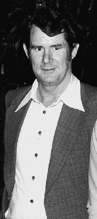 Peter Walsh in 1979